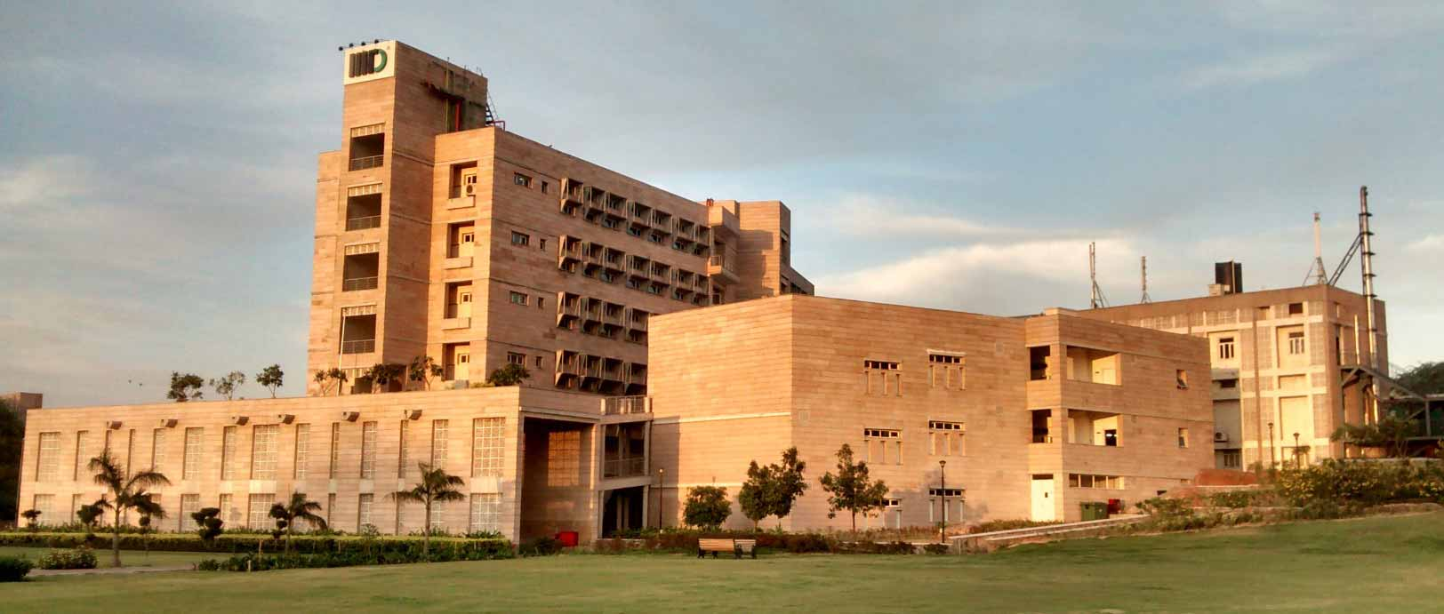 IIIT-Delhi Academic Block